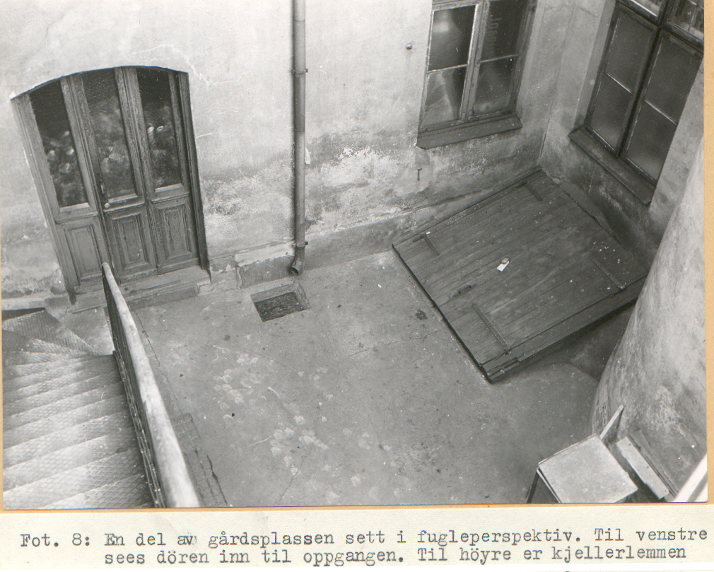 Scene of murder - Gateway